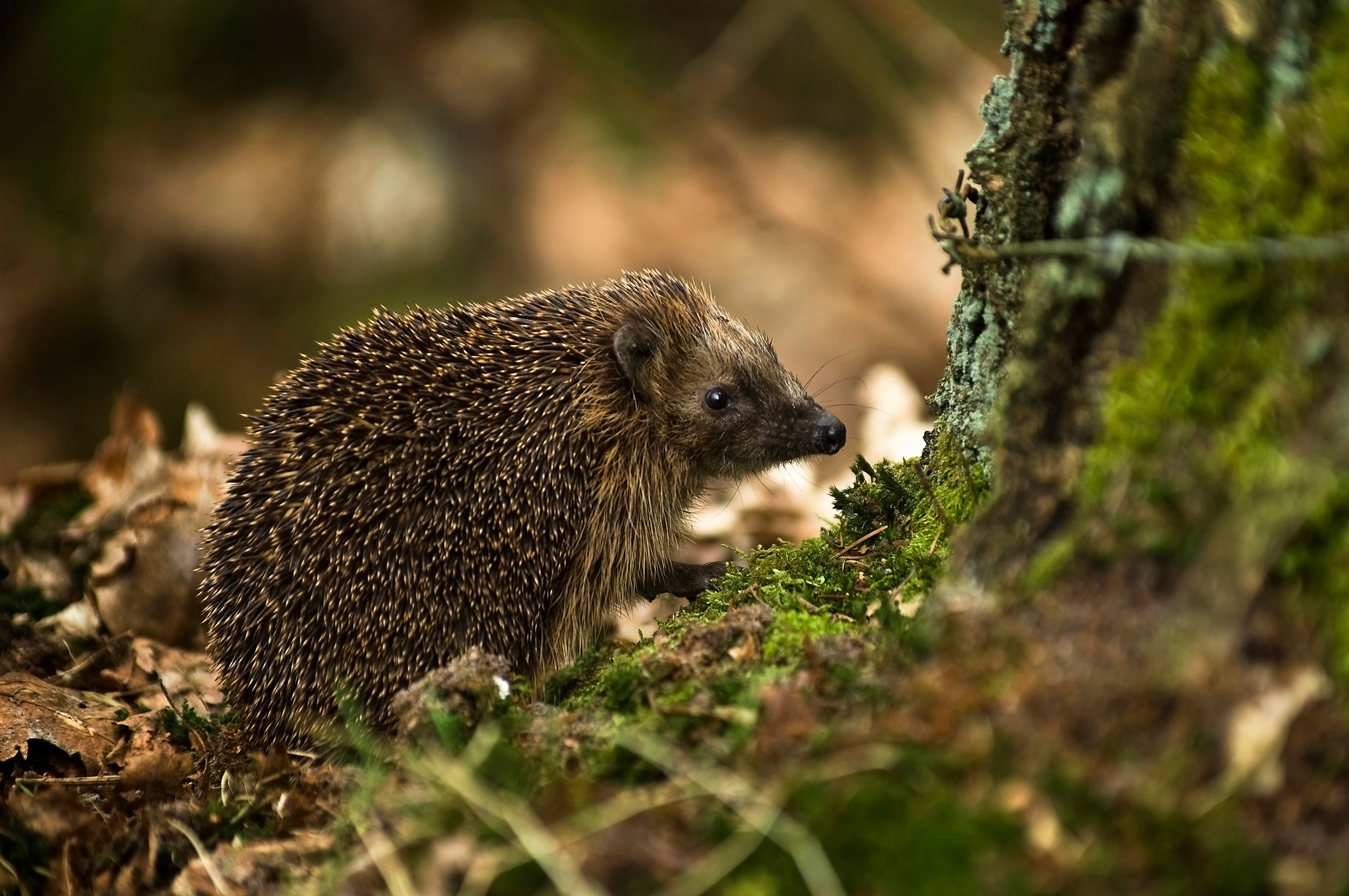 West European Hedgehog (Erinaceus europaeus). photographed in the Emmerdennen(wood), Emmen, Netherlands.